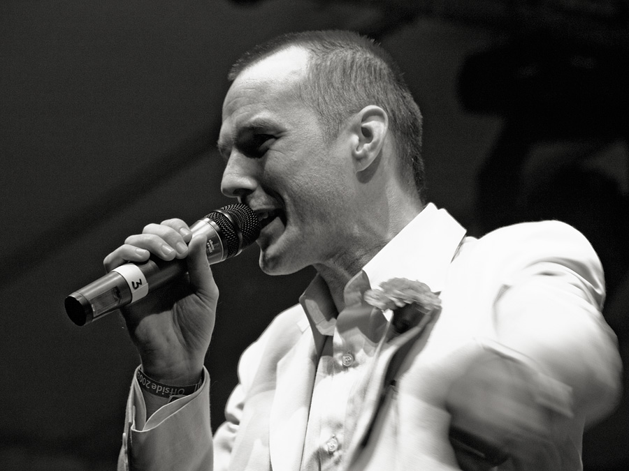 Cappuccino (Jazzkantine), Offside Festival 2008